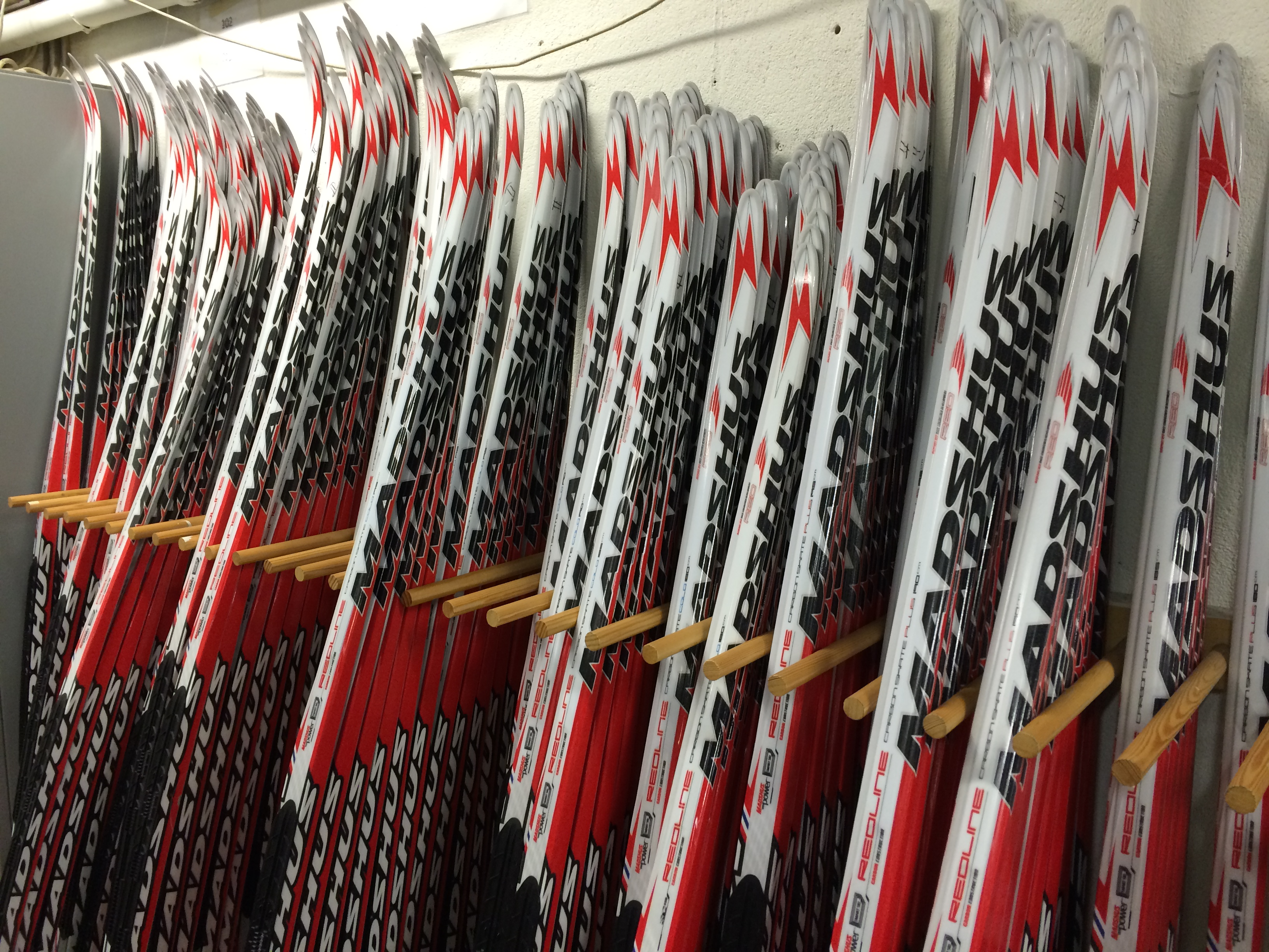 Madshus Redline Carbon Skate Cold and Plus skate skis